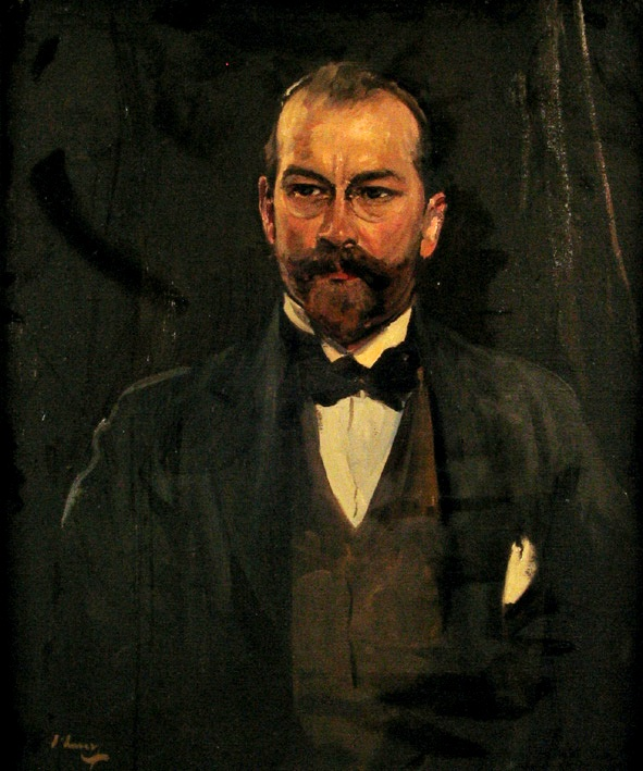 Portrait of George Gavan Duffy (1882–1951) an Irish politician, barrister and judge. Oil painting by Sir John Lavery RA (1856–1941) from the collection of Hugh Lane Gallery, Dublin